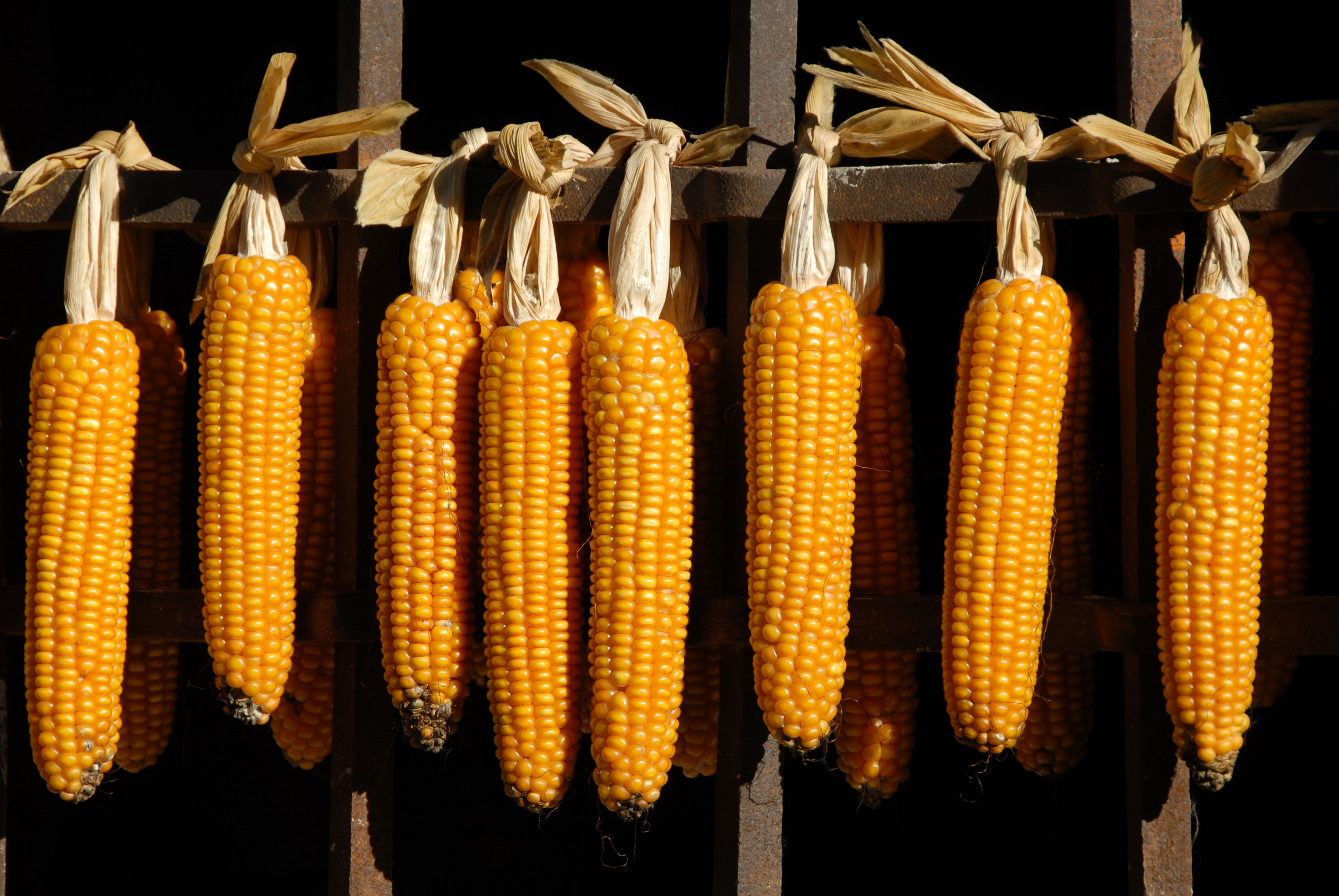 Corncobs at castle Toellerberg, municipality Voelkermarkt, district Voelkermarkt, Carinthia, Austria, EU